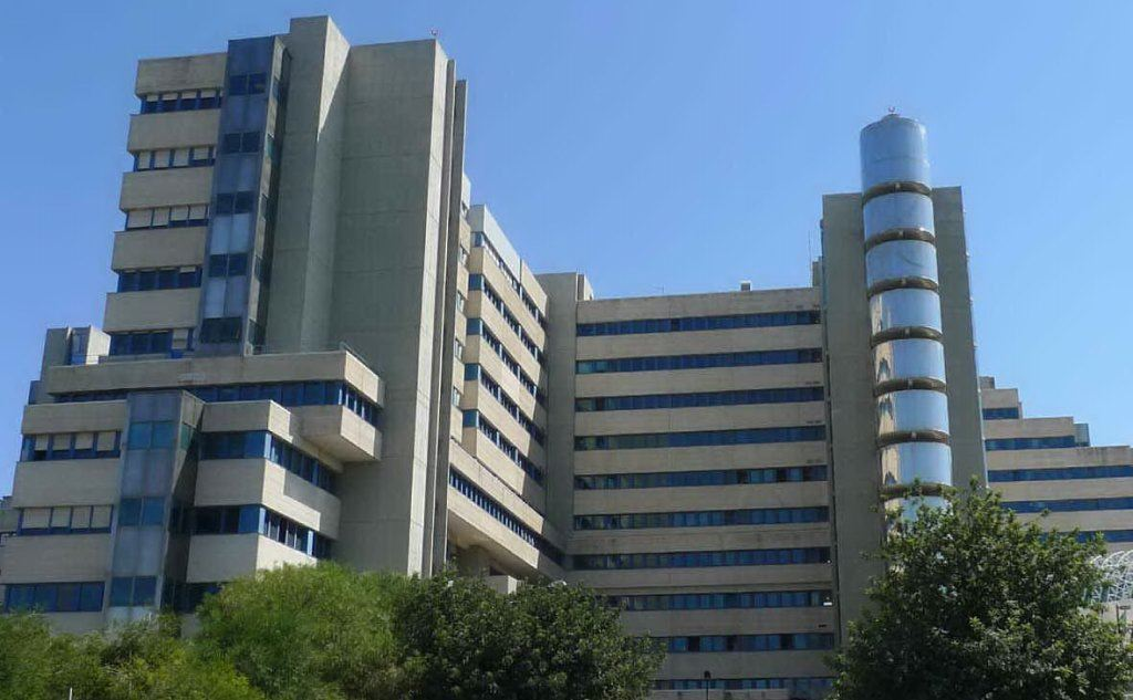 Brotzu Hospital